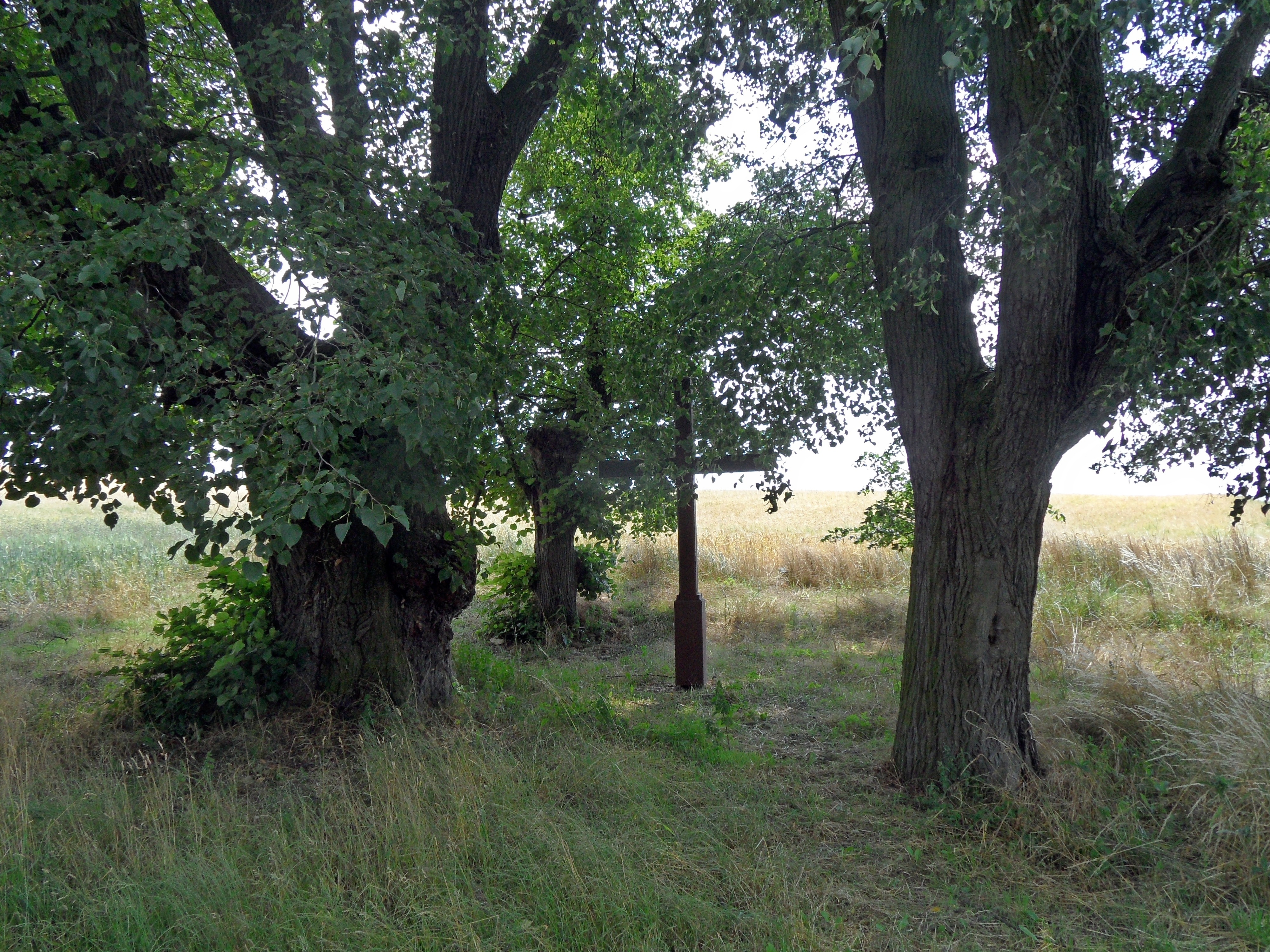 Benátecká Vrutice: Famous trees: 2x Tilia Cordata, South of the Village, locality called Nad Křížem. Nymburk District, the Czech Republic.